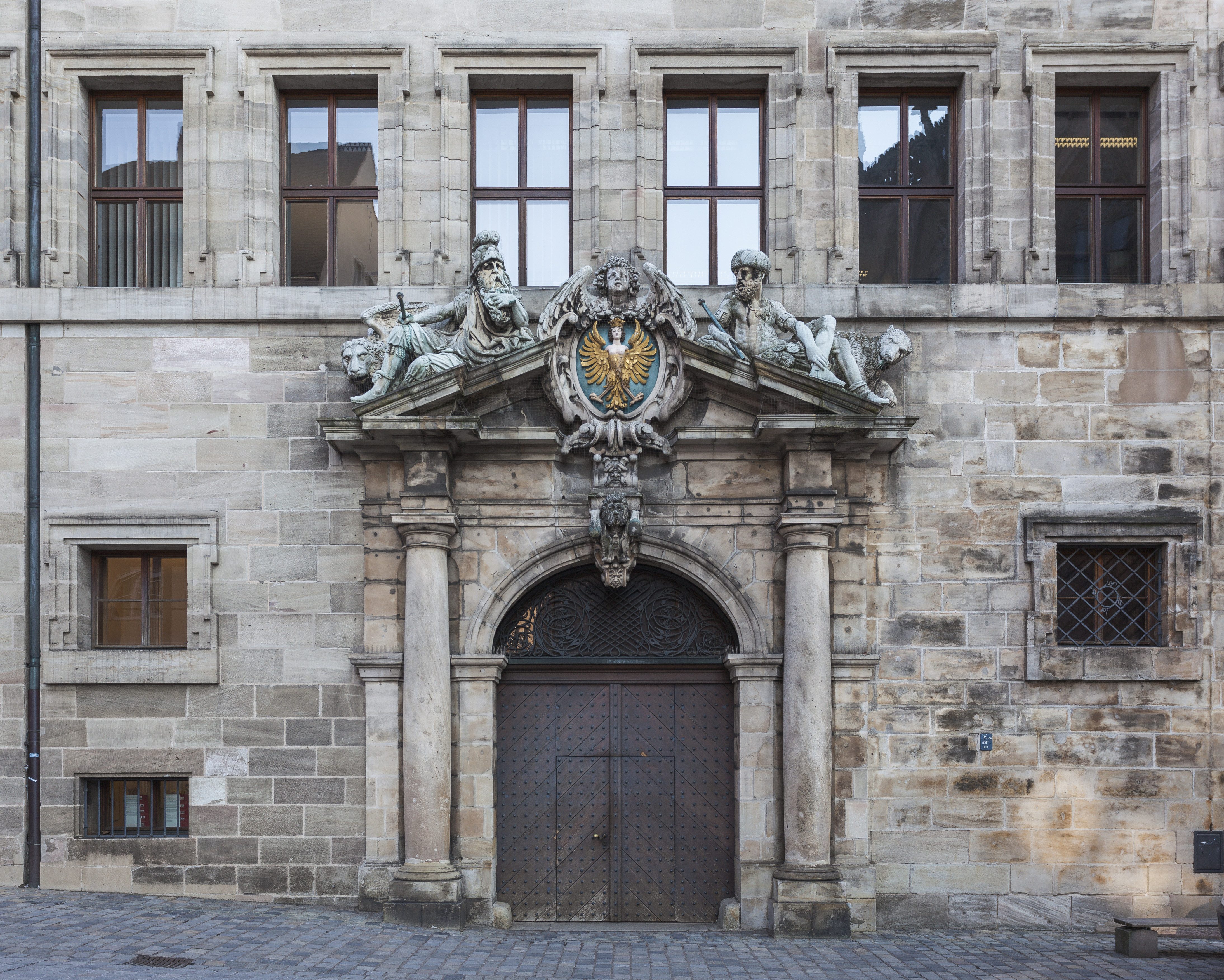 Old Town Hall, Nuremberg, Germany